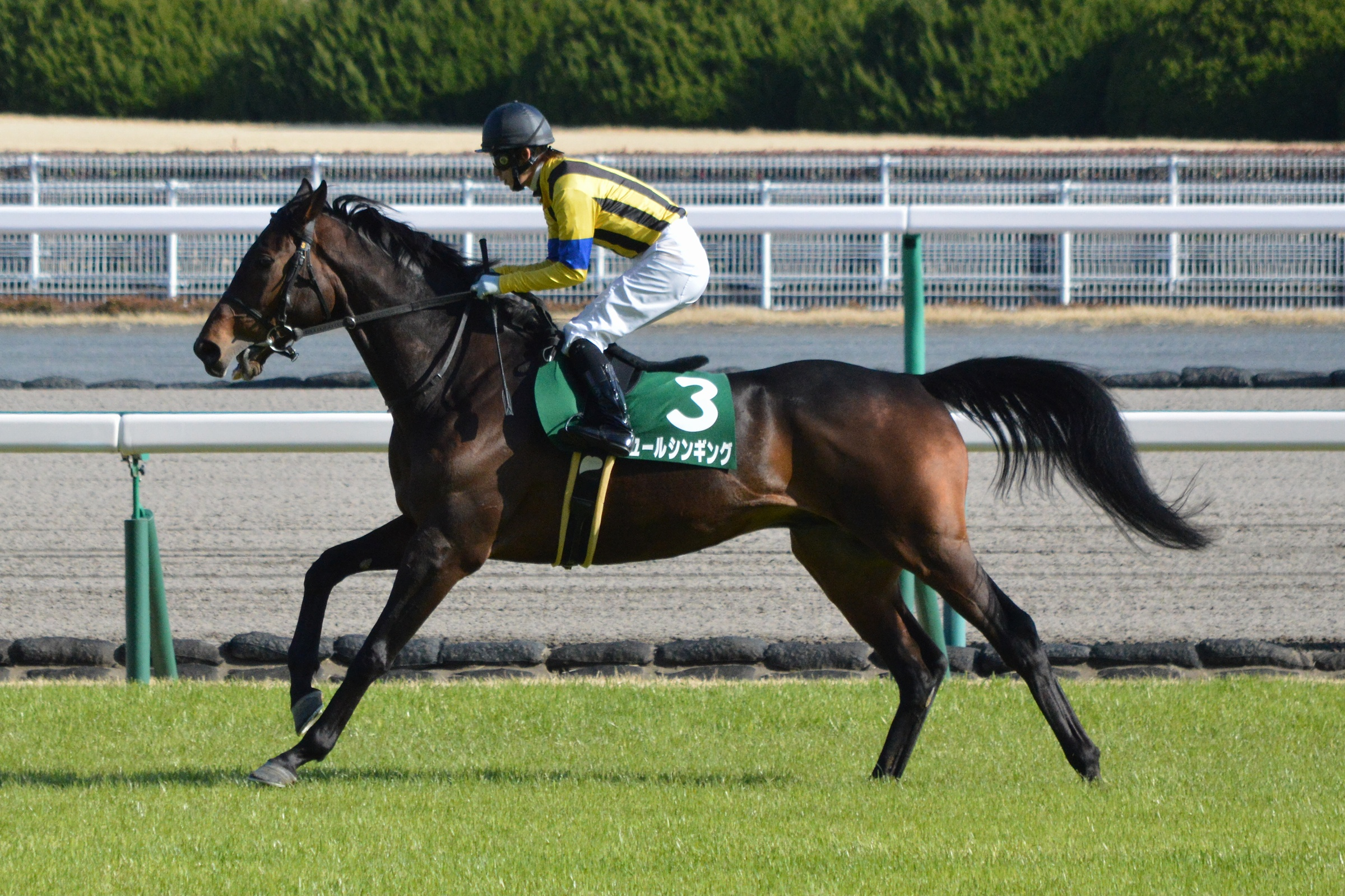 Japanese race horse Yule Singing at Chukyo racecourse. Chukyo (JPN) 15 Mar 2014 Chunichi Shimbun Hai (Grade 3) (4yo+) (Turf) 1m2f Firm RankHorse NameOddsAgeWgtTrainerJockey1stMartinborough (JPN)30/1H58-7Yasuo TomomichiDario Vargiu2ndLachesis (JPN)31/10F48-7Katsuhiko SumiiYuga Kawada3rdLovely Day (JPN)108/10C48-11Yasutoshi IkeeEduardo Pedroza4thYule Singing (JPN)222/10C48-9Kazuhiro SeishiGenki Maruyama5th - 18th/omission